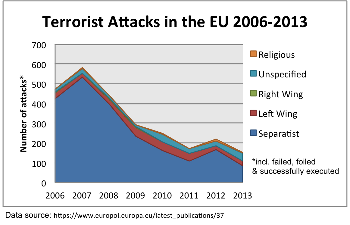 Terrorist Attacks in the EU by Affiliation - data from Europol